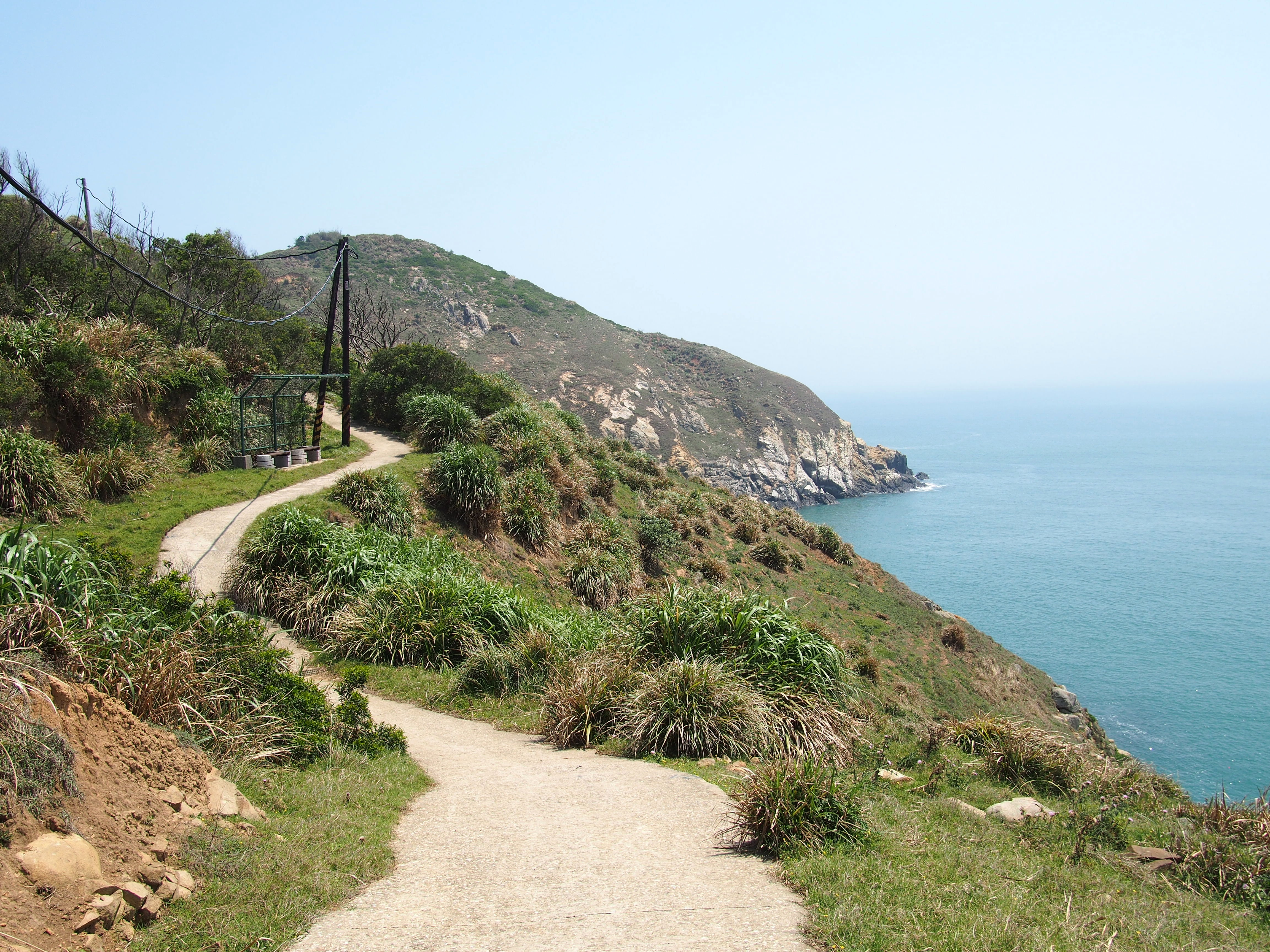 Daqiu Island Walkway - 2015.05